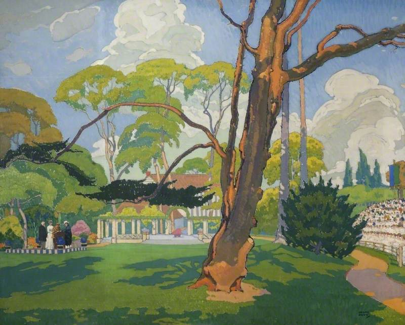 Oil on canvas, 108 x 133 cm. Donated to Birmingham Museum and Art Gallery in 1980.